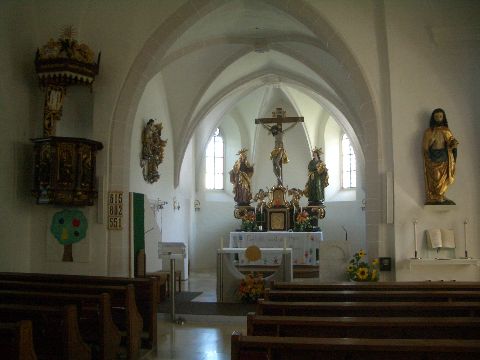 Saint Quirin Church in Pierbach, Upper Austria